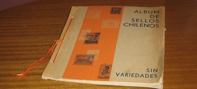 Stamp album folder type, with pre-pressed pages for Chilean stamps, without varieties